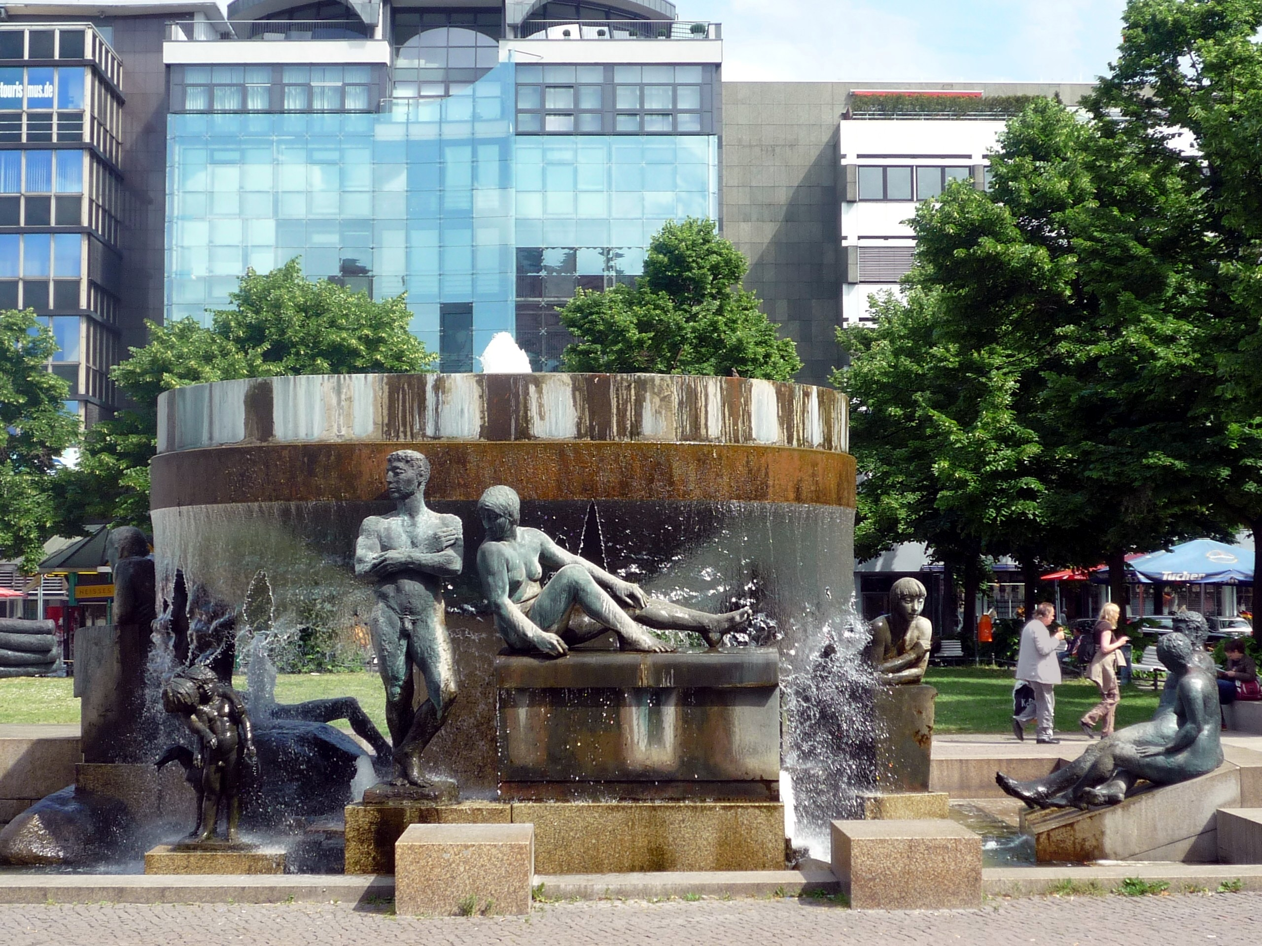 Fountain at Wittenbergplatz (Southern part) in Berlin Schöneberg (Germany). Design and sculptures by Waldemar Grzimek (1918-1984).